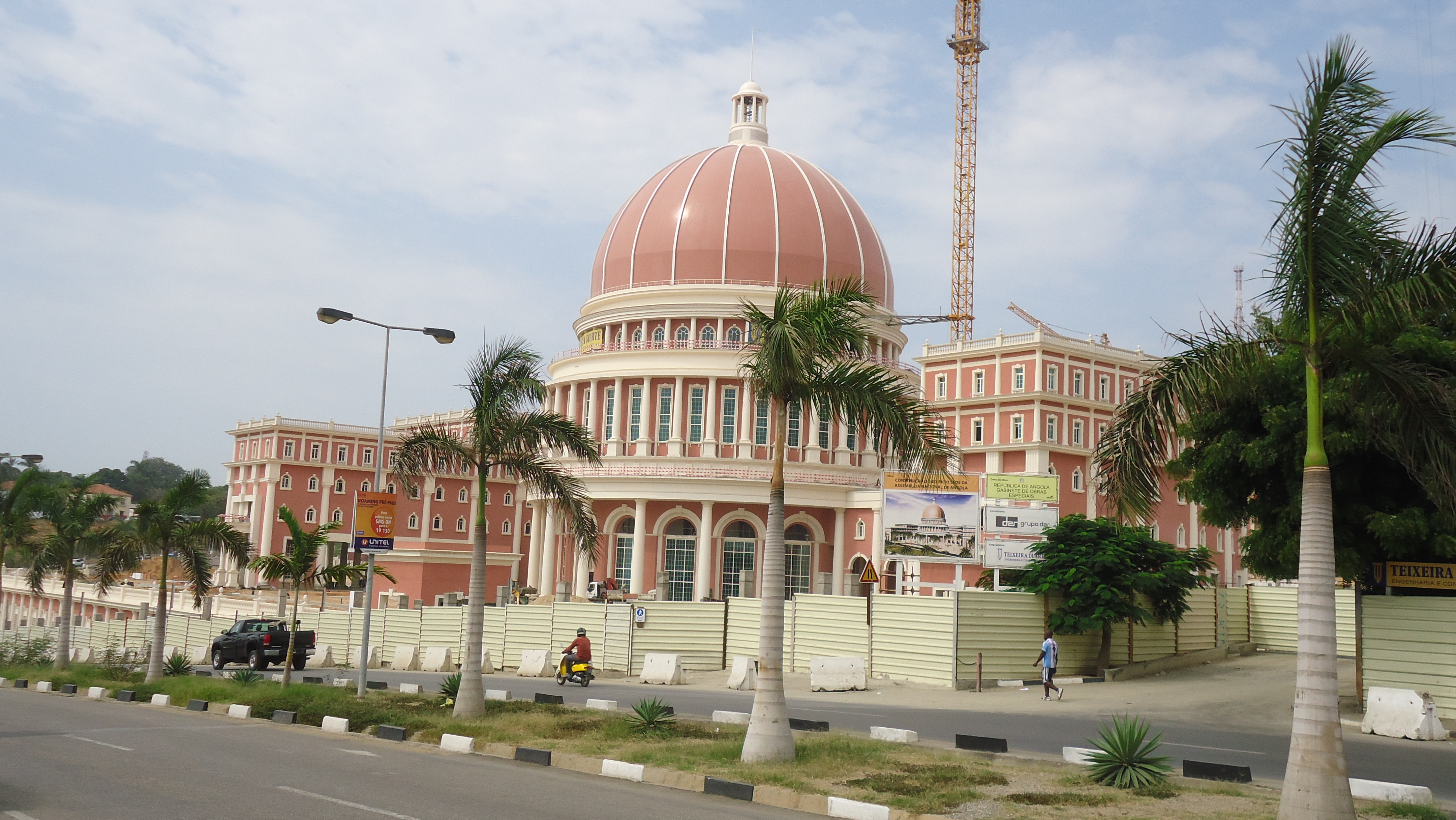 Streets and buildings of Luanda. Photo by Fabio Vanin, Luanda, 2013.